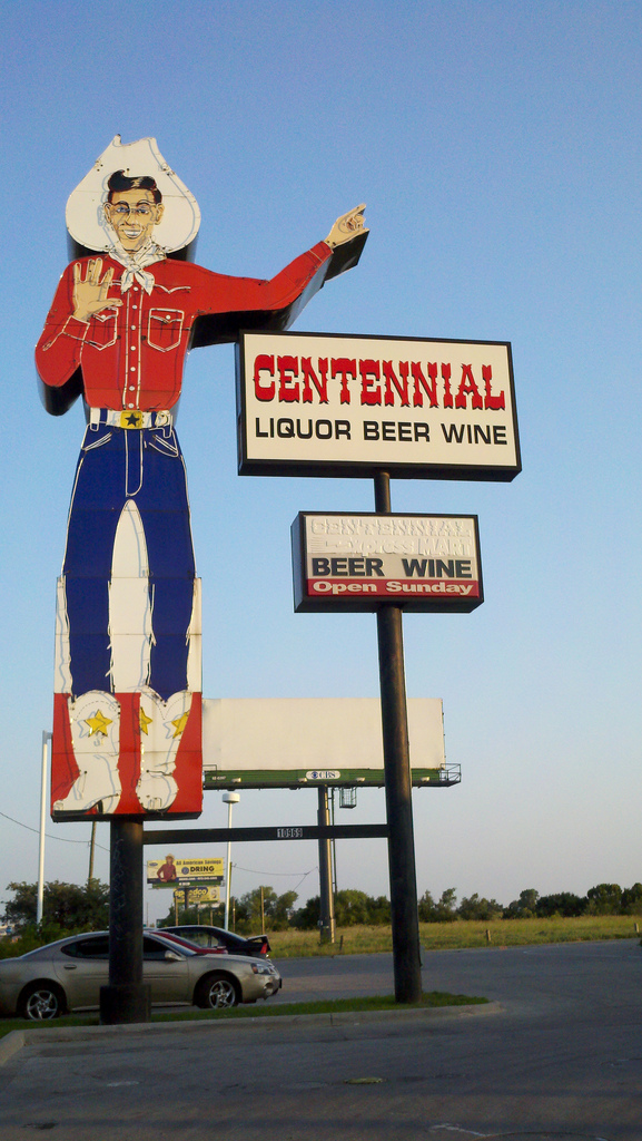 Centennial Liquor sign in Dallas, Texas based on iconic "Big Tex" figure